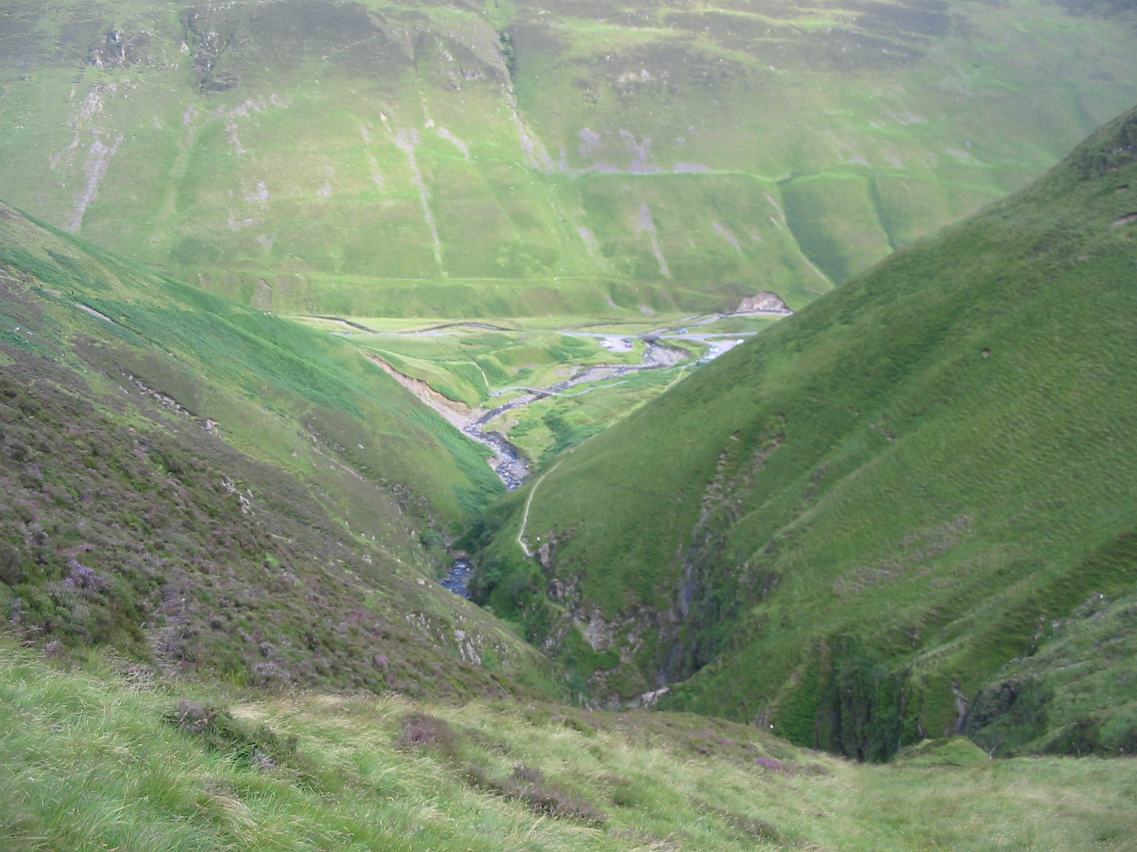 Gulch in Scotland